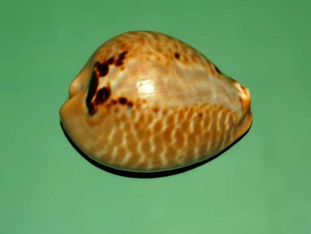 Muracypraea mus - Venezuela, Amway Bay